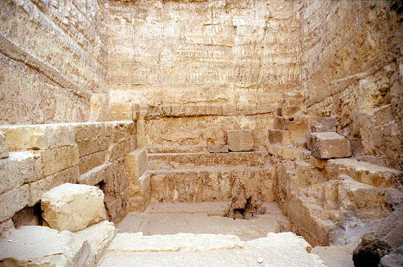 Tomb chamber of the Pyramid of Djedefre, Abu Rawash, Egypt